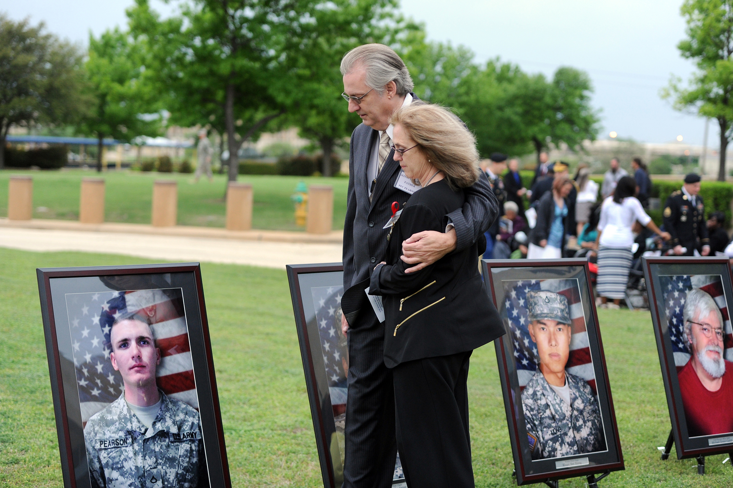 Jeffrey and Sheryll Pearson look at the portrait of their son, Army Pfc. Michael Pearson, before the Purple Heart and Defense of Freedom award ceremony on Fort Hood, Texas, April 10, 2015. The event honored the 13 people killed and more than 30 injured in a gunman’s 2009 shooting rampage on the base.